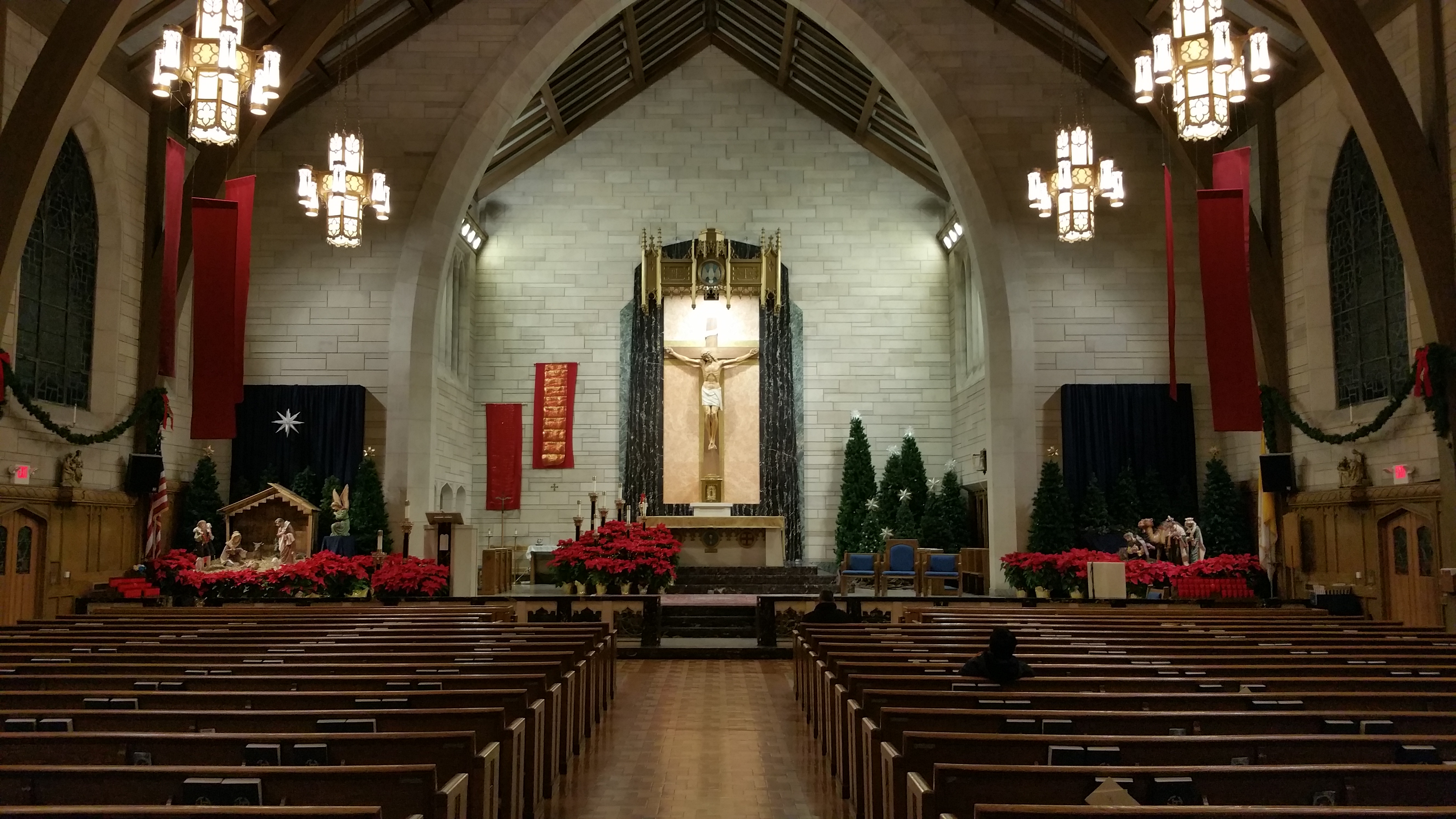 The image is of a Moravian star and Nativity scene in the sanctuary of St. Paul Roman Catholic Church. I clicked this picture on December 30, 2016.